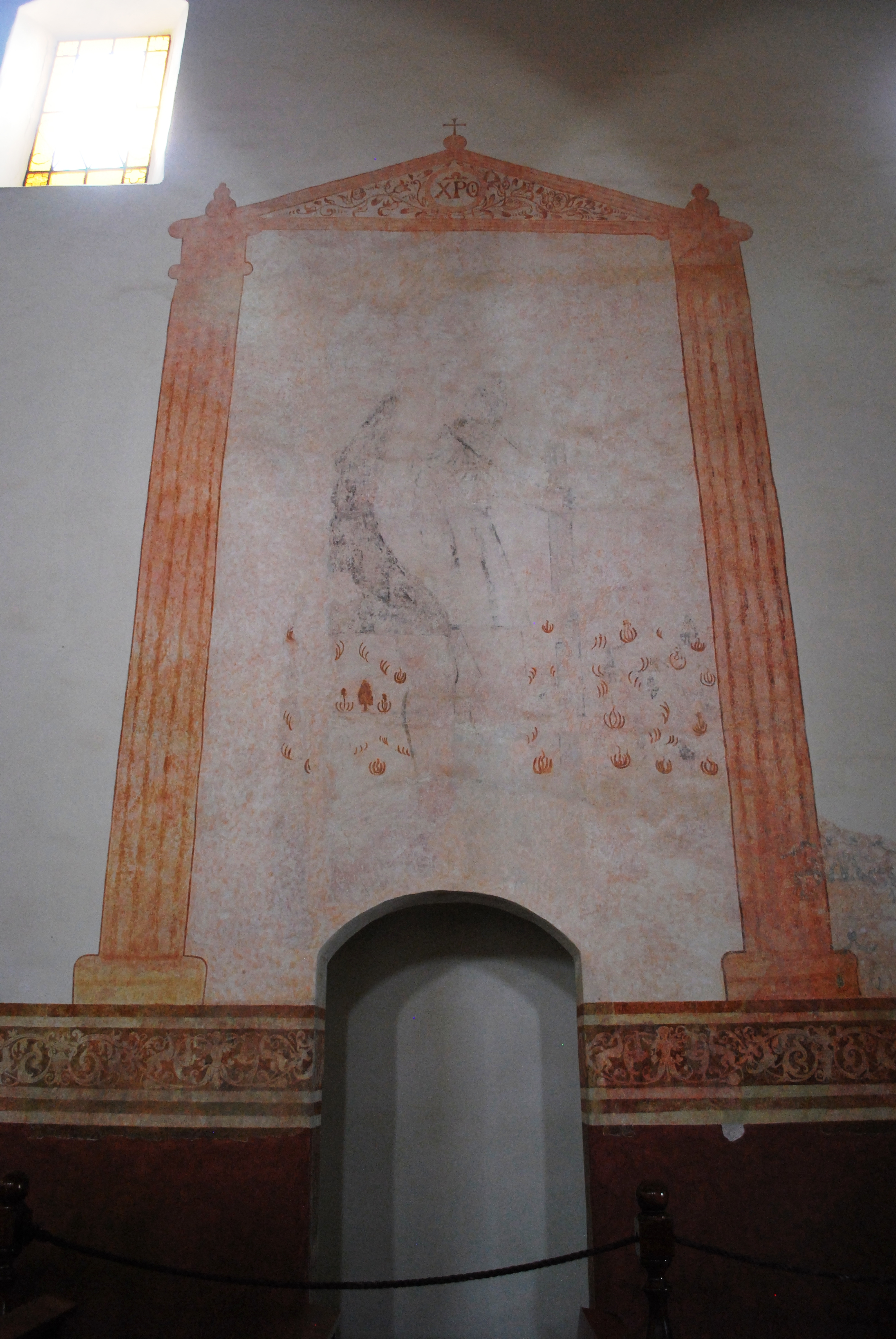 Mural remnant inside the church of the former Franciscan monastery in Zacatlán, Puebla, Mexico